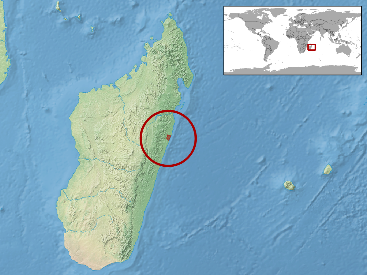 geographic distribution of Phelsuma kely (Native: Madagascar)